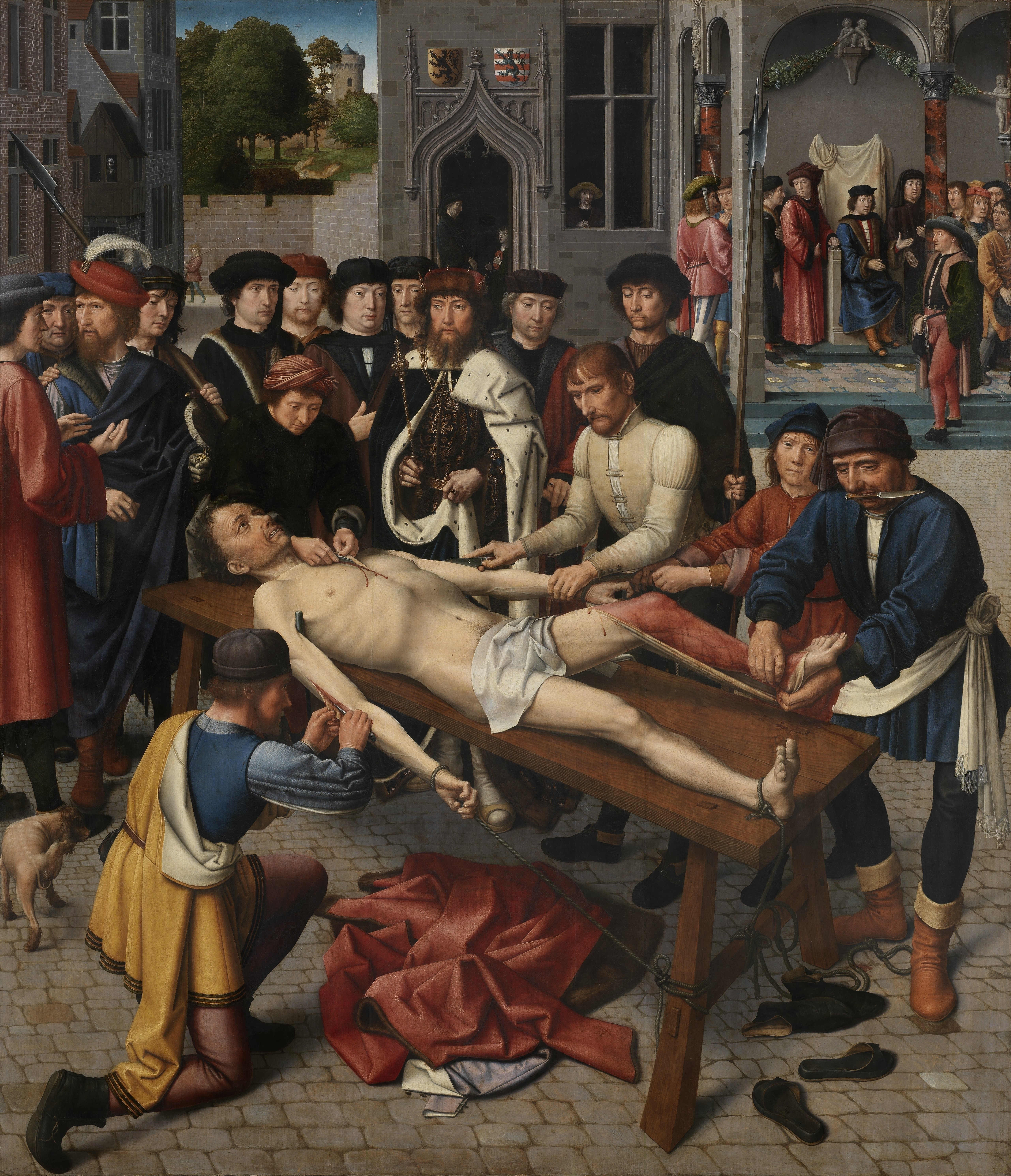 Justice diptych for the Council Chamber of Bruges Town Hall. Panel 2 - According to an old Persian story, Sisamnes was a corrupt judge who was skinned alive on the orders of King Cambyses. The judicial throne from which Otanes, Sisamnes' son and successor, was henceforth to dispense justice is covered by skin.